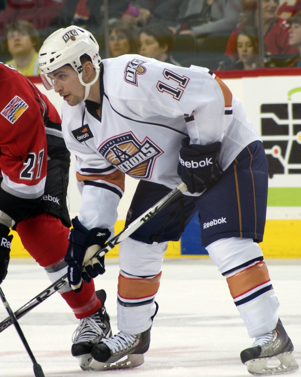 Mark Arcobello, born August 12, 1988 in Milford, Connecticut, is an American professional ice hockey forward. Photo was taken on February 18, 2011 during an American Hockey League (AHL) regular season game.